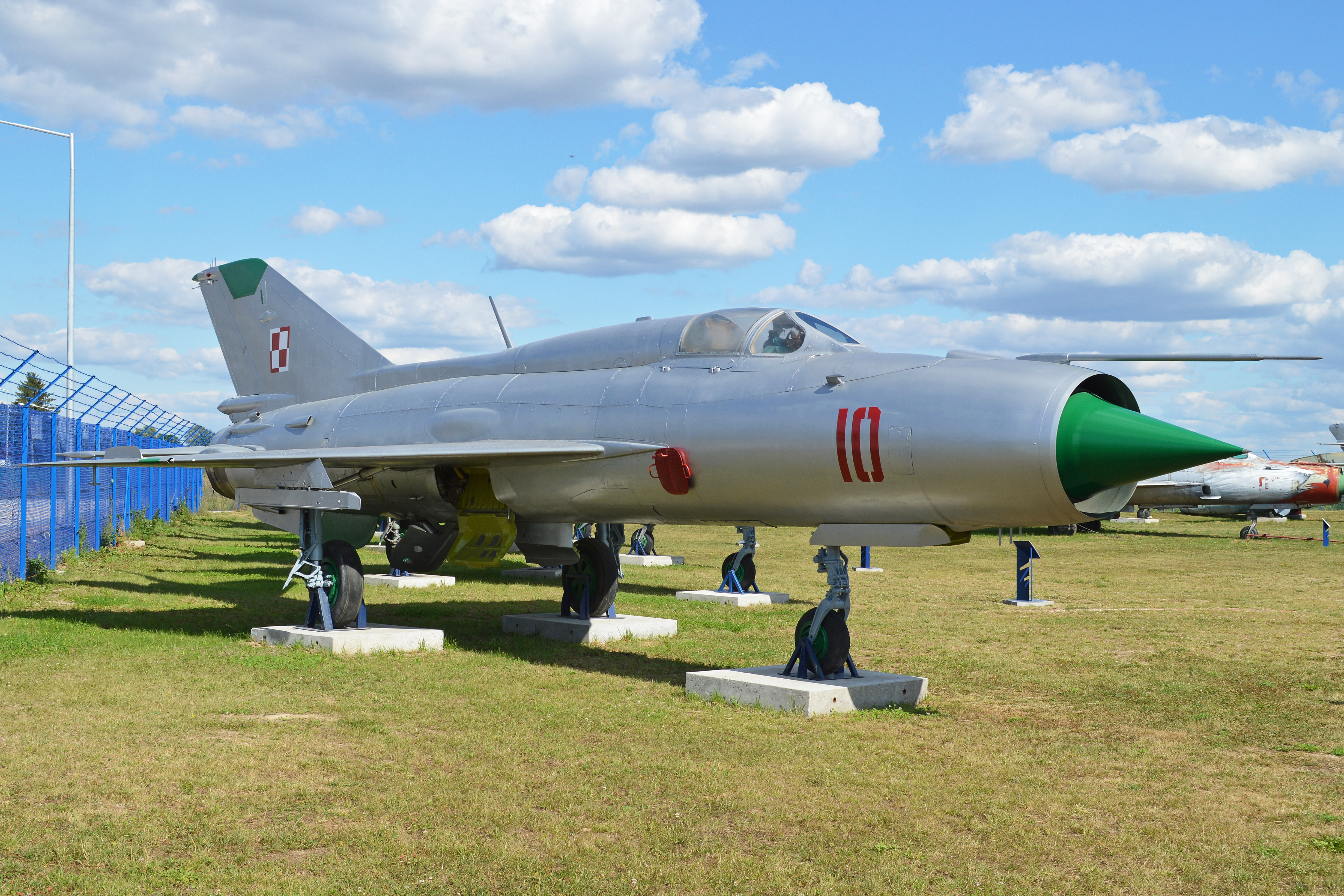 The 'PFM' was developed from the 2nd generation MiG-21PF with upgraded radar and avionics. The export versions could not carry S-24 rockets or ZB-62 napalm tanks. It's NATO codename was 'Fishbed-F'. c/n 940ML-10. On display at the Muzeum Sit Powietrznych. Deblin, Poland. 25-8-2013